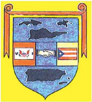 Seal depicting the US. Virgin Islands and Puerto Rico shaking hands in friendship.